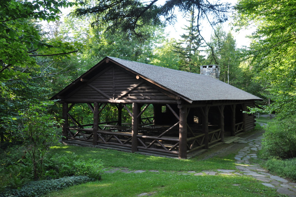 Allis State Park, Brookfield, Vermont. The CCC-built picnic pavilion.